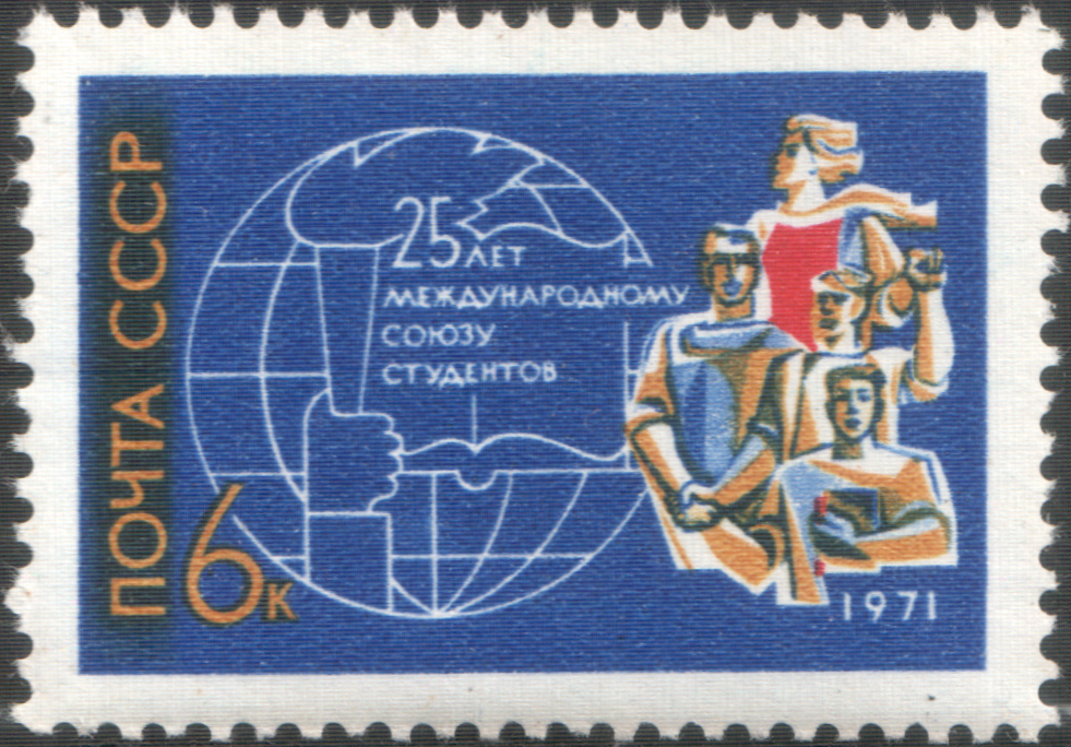 USSR stampː Federation Emblem (Globe) and Students of Different Nationalities. Seriesː 25th Anniversary of International Union of Students (founded 1946.08.27)